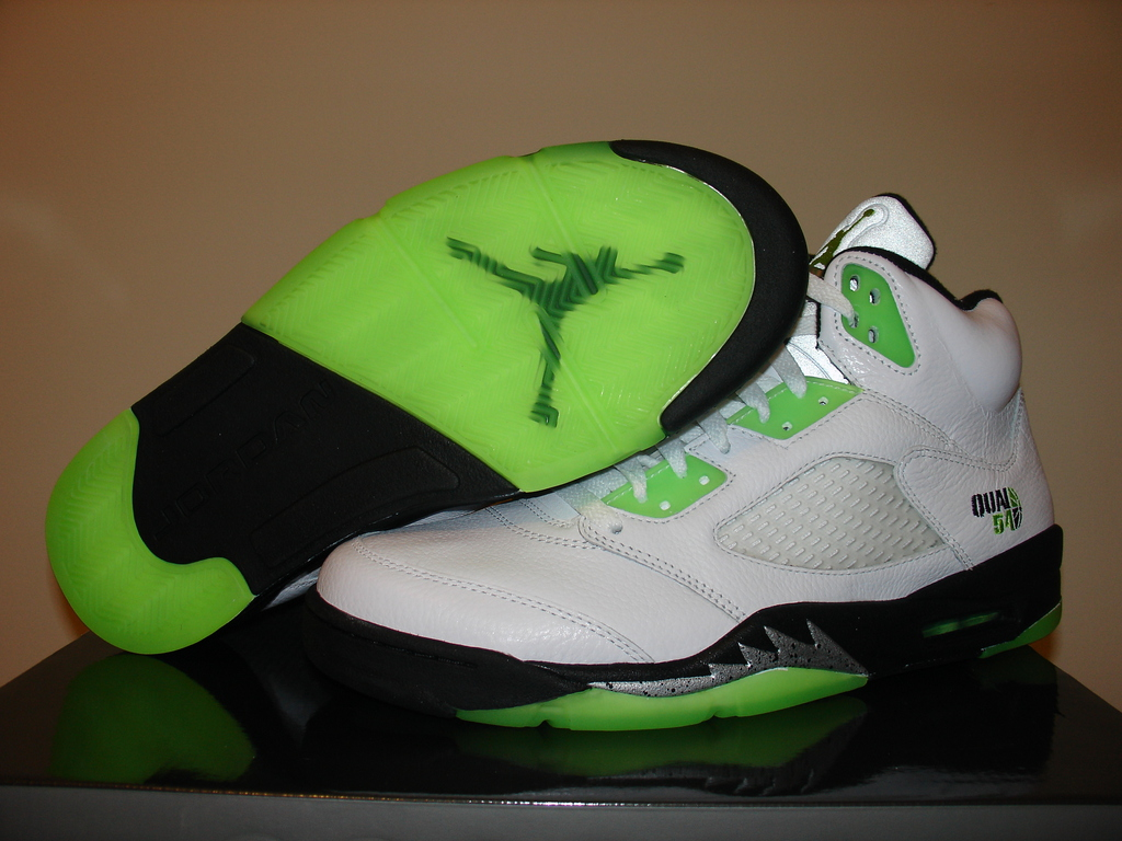 Air Jordan V (5) - Quai54 Colour Scheme 2011